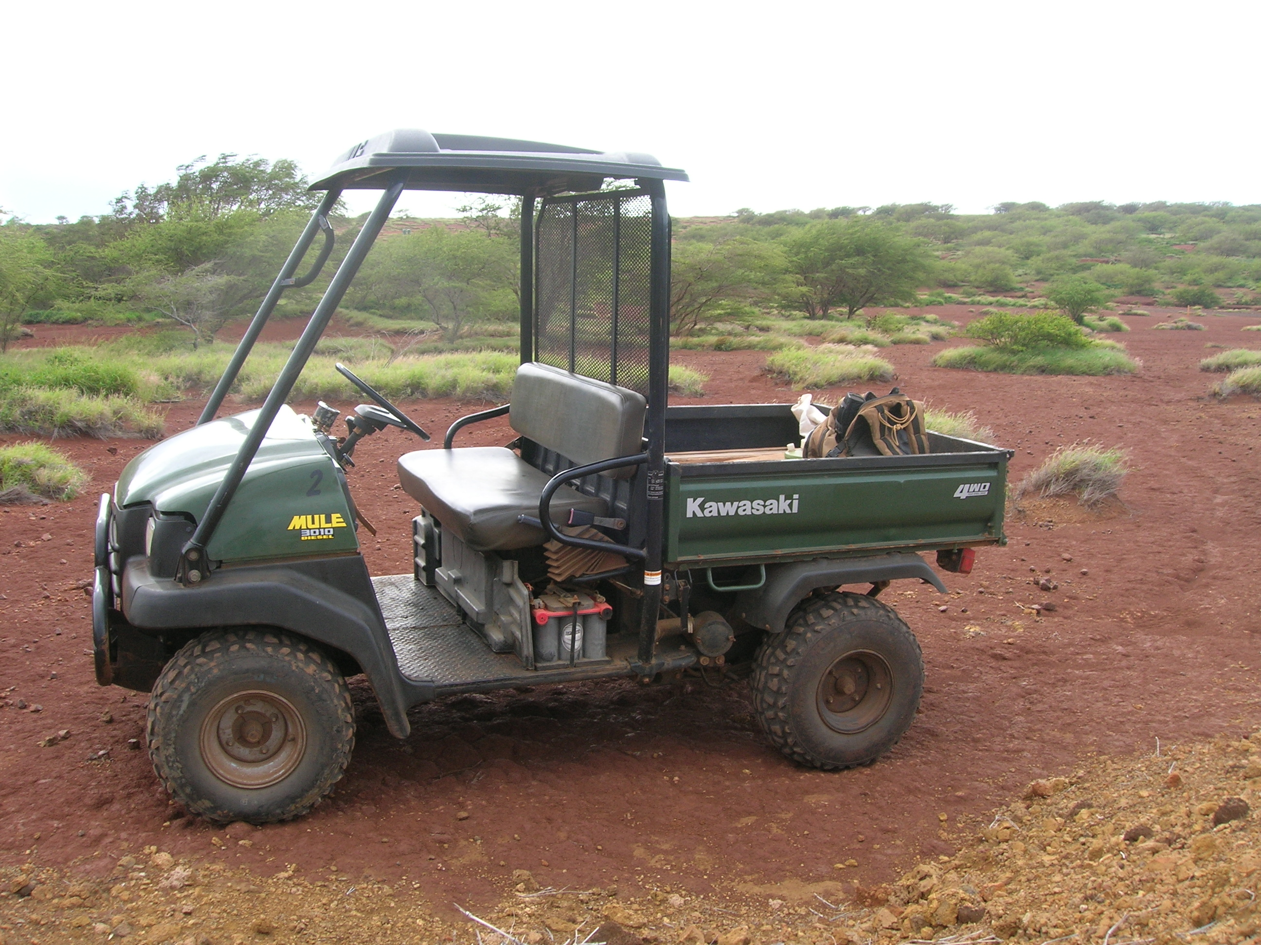 Pennisetum setaceum (habitat and Polaris cart). Location: Kahoolawe, Lua Kealialalo